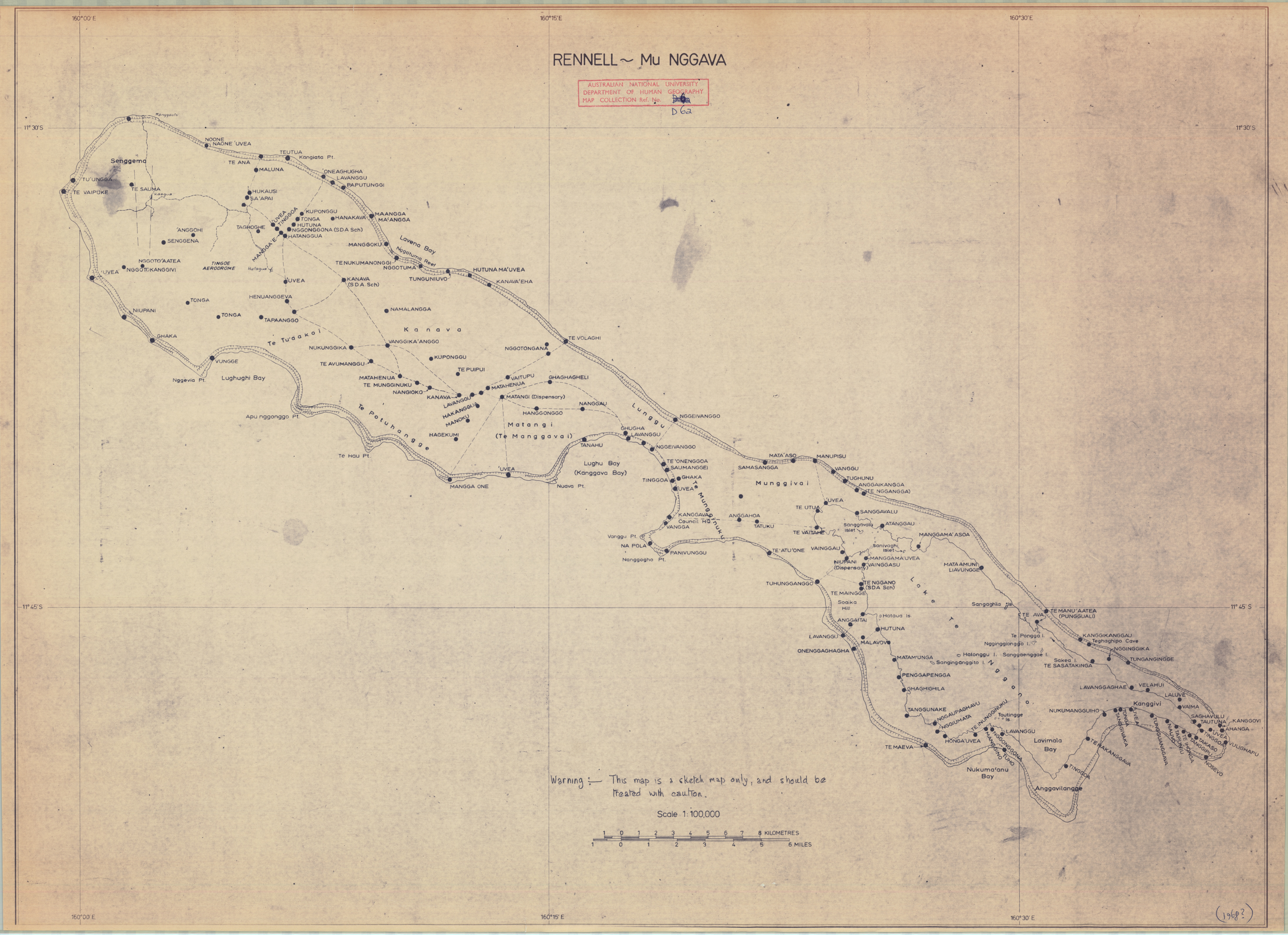 sketch map of Rennell Island (Mu Nggava), Solomon Islands, Melanesia, South Pacific Ocean